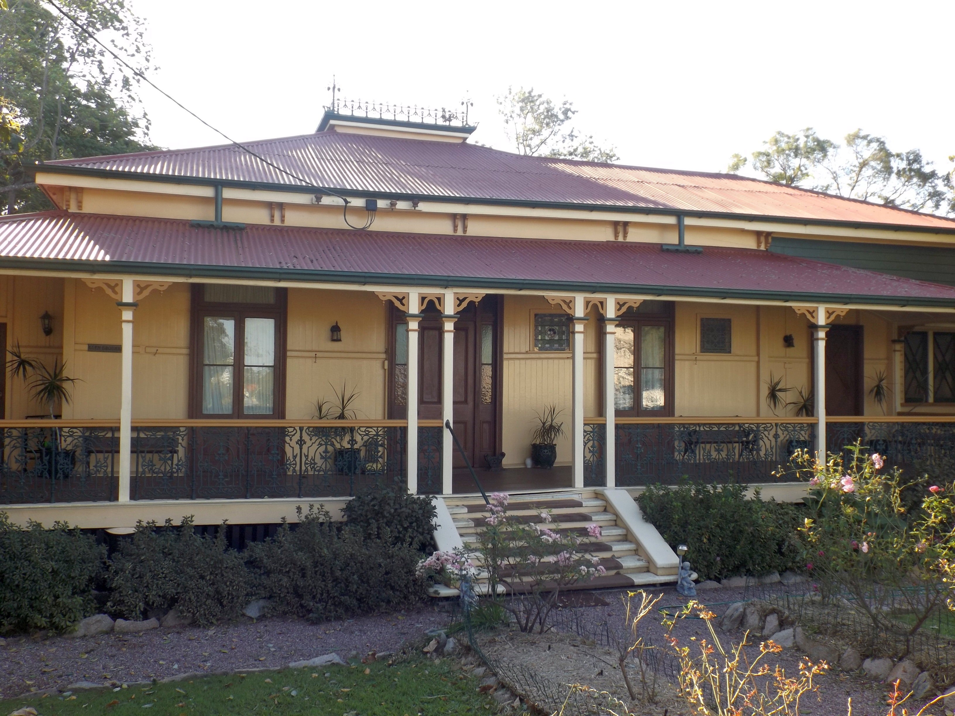 Photo of the entrance to Woodlands at Ashgrove, Brisbane, Queensland, Australia.